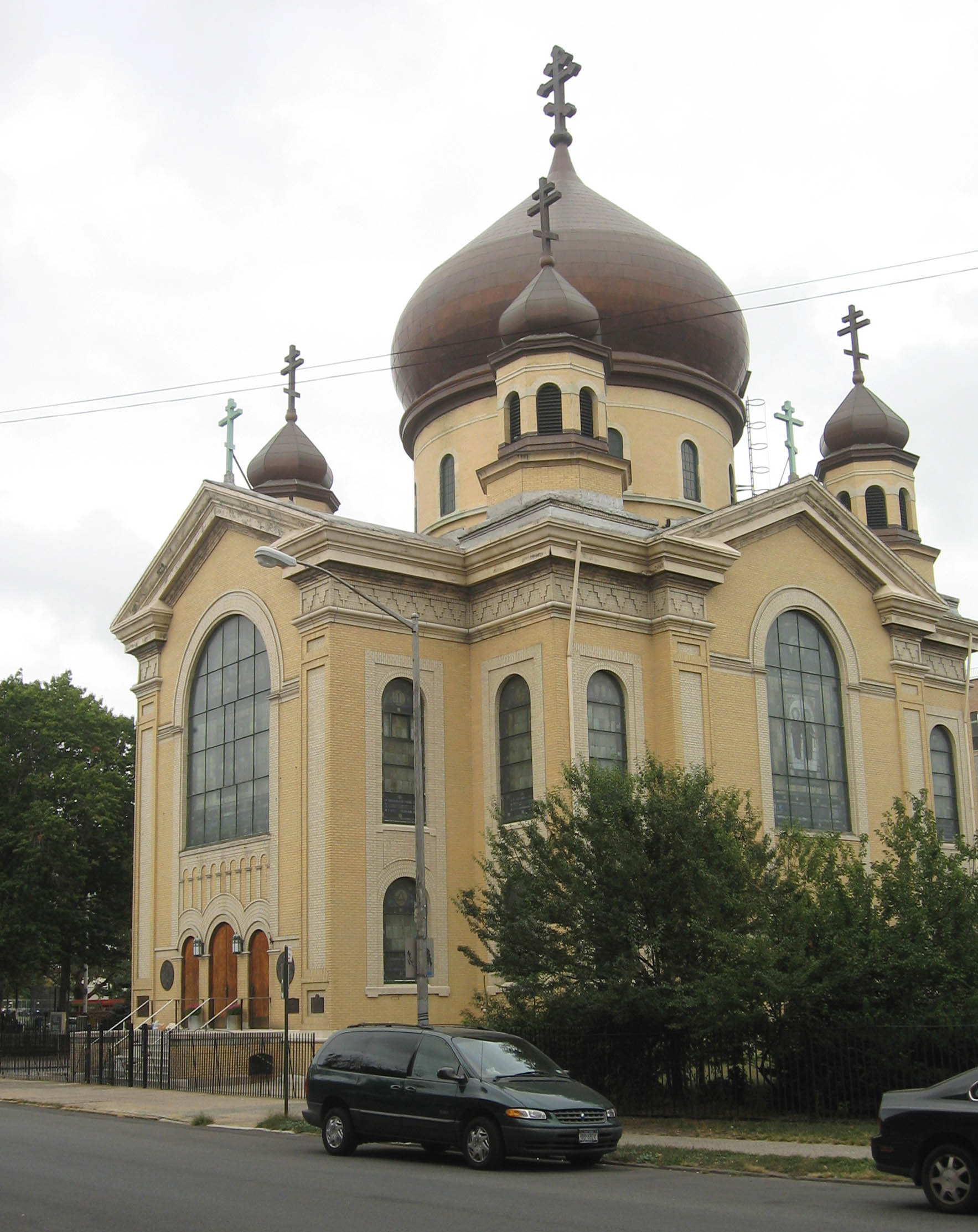 Looking east on a cloudy day at Russian Orthodox Cathedral of the Transfiguration of Our Lord, Greenpoint, Brooklyn, a List of Registered Historic Places in Kings County, New York designated 1989, its copper recently replaced.